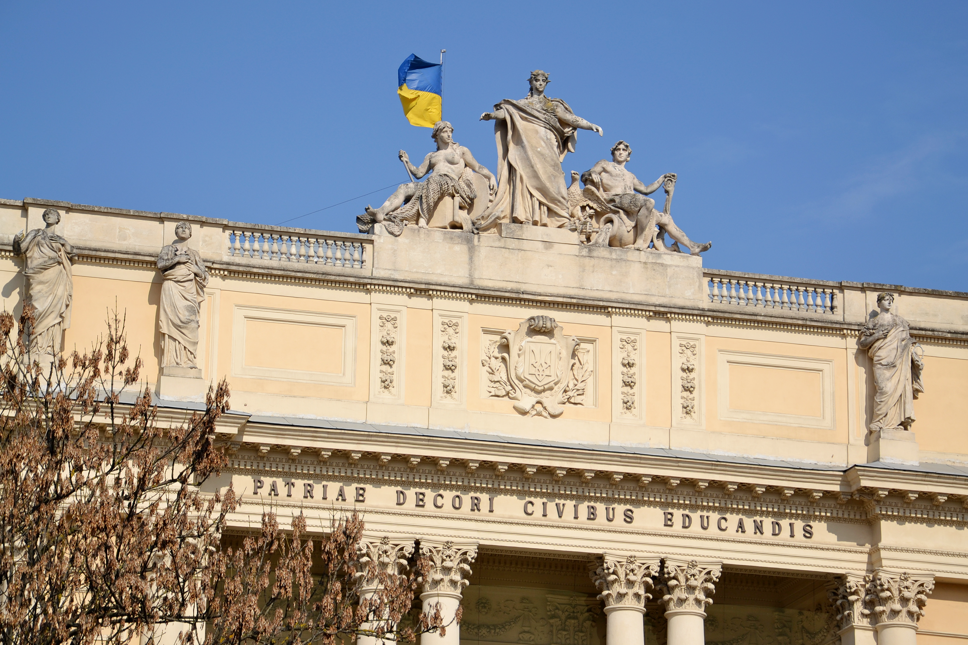 Main building of Lviv University, Lviv, Ukraine